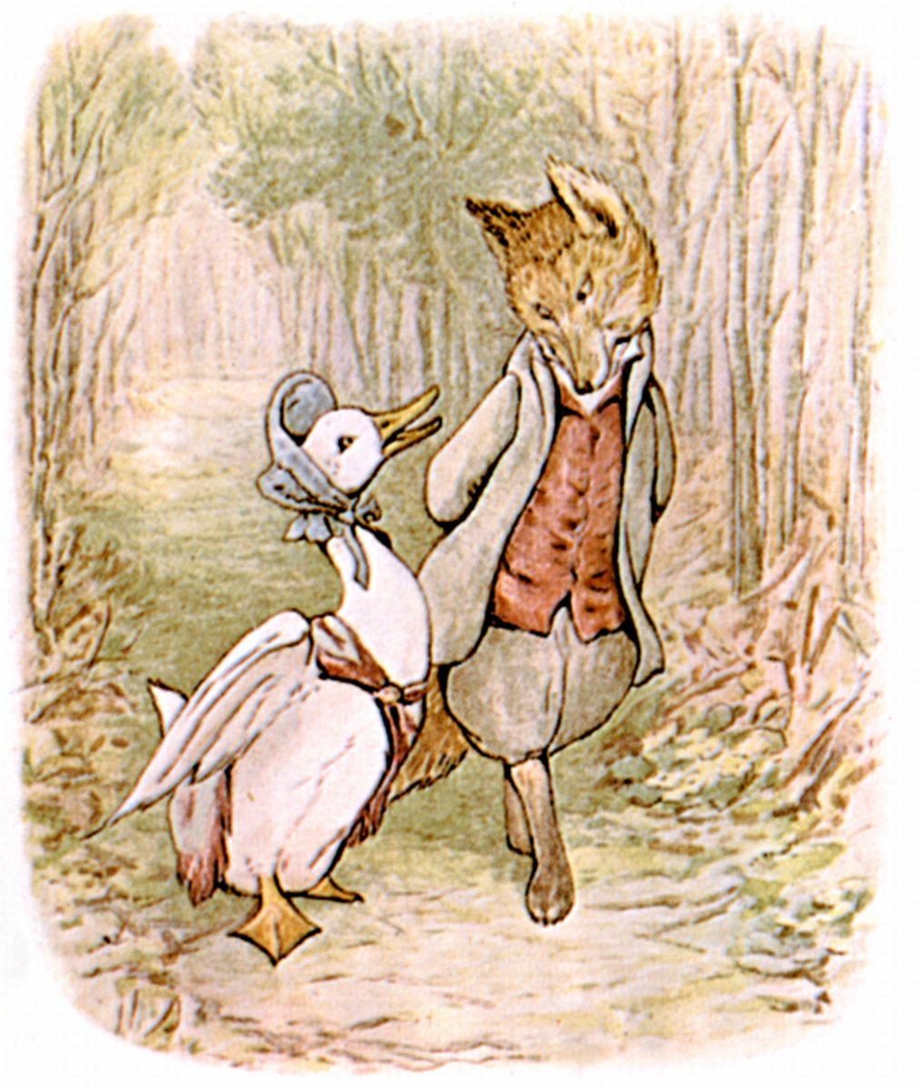 Illustration from children's book The Tale of Jemima Puddle-Duck